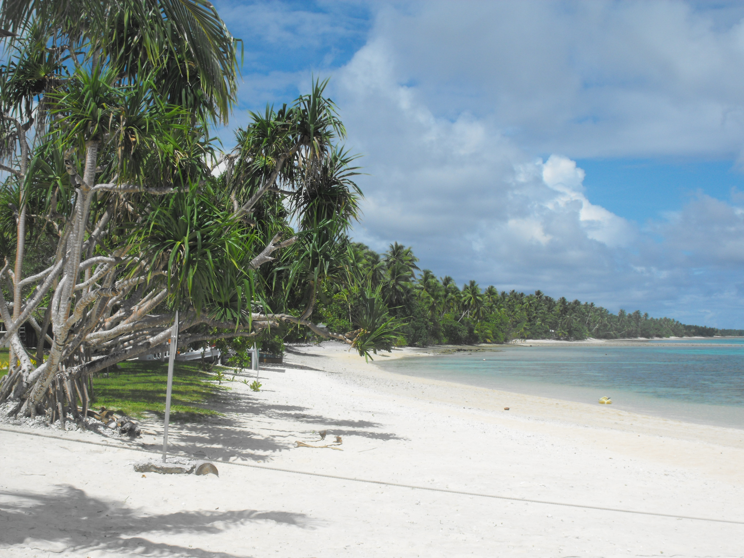 Images from a trip to the islet of Eneko in Majuro Atoll, Republic of the Marshall Islands.